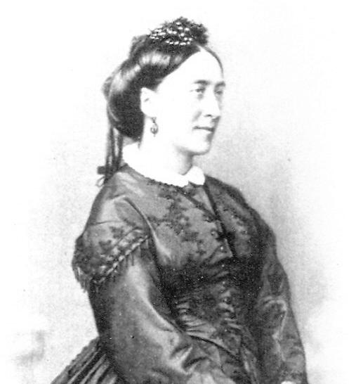 Princess Caroline of Mecklenburg-Strelitz